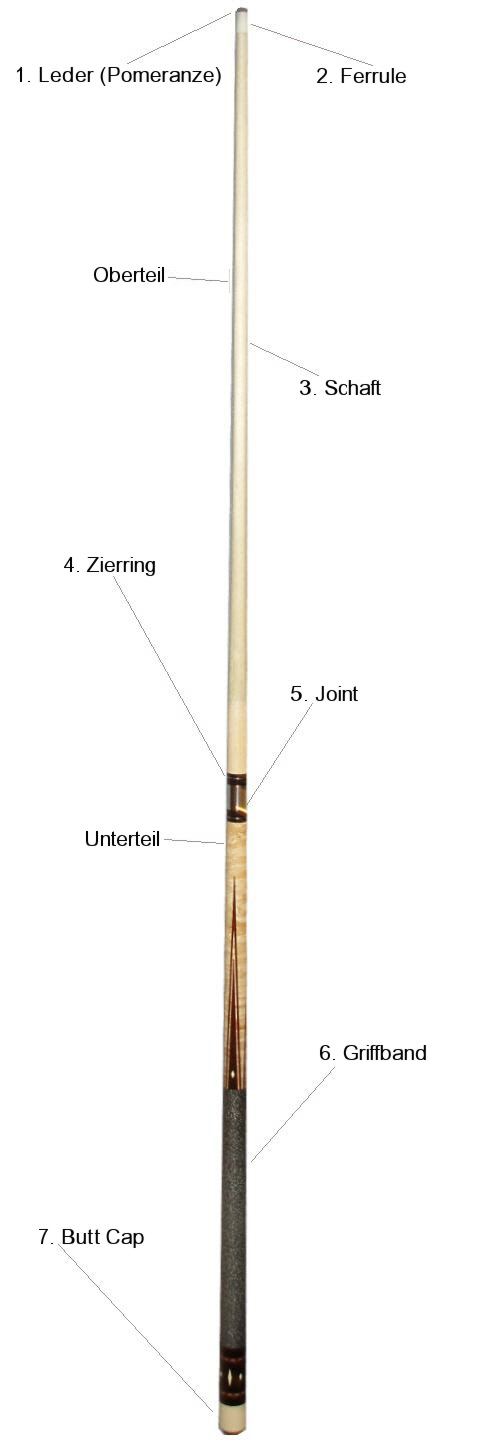 parts of a cue